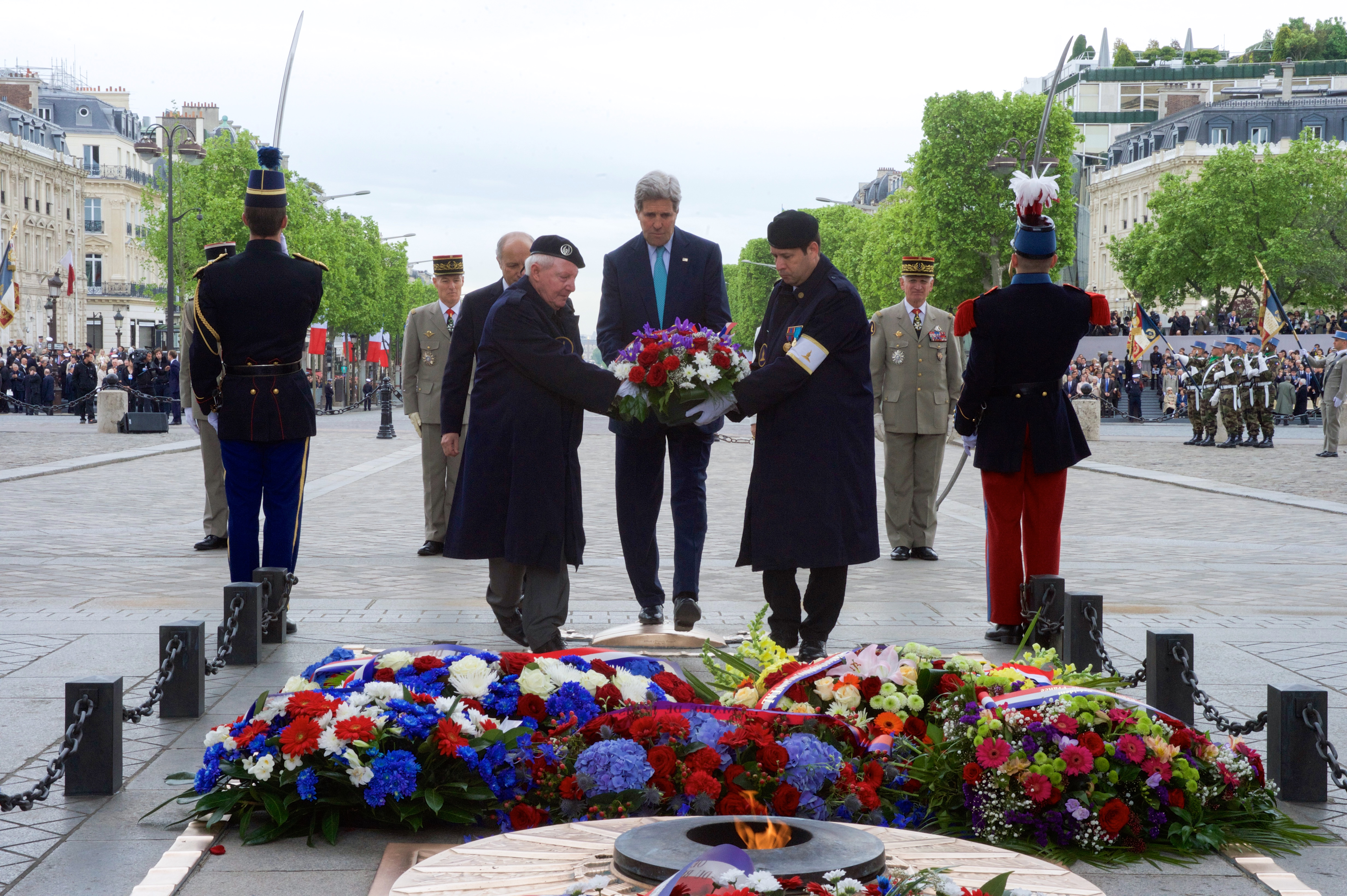 U.S. Secretary of State John Kerry lays a wreath during a commemoration of the seventieth anniversary of VE Day in Paris, France, on May 8, 2015. [State Department photo/ Public Domain]